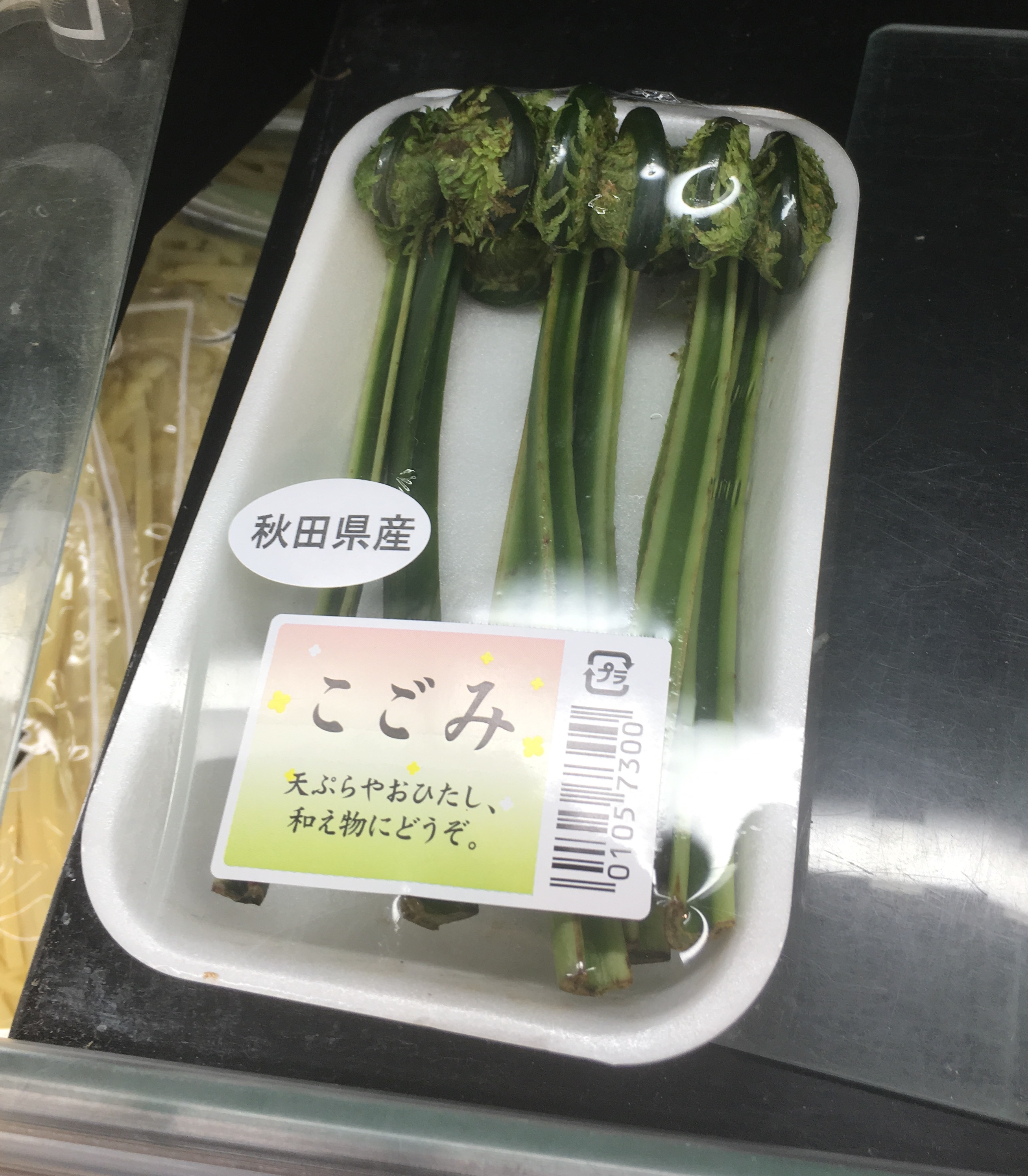 こごみ（fiddlehead ferns sprouts）